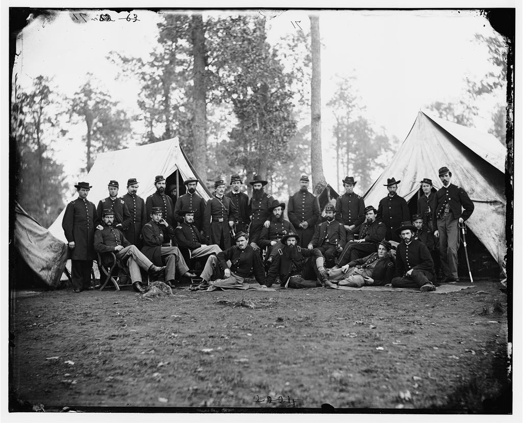 Photograph of the assembled officers of the 80th New York Infantry (20th N.Y.S.M.) at their encampment at Culpepper, Virginia. Glass collodion wet negative. The Library of Congress, Washington, D.C.